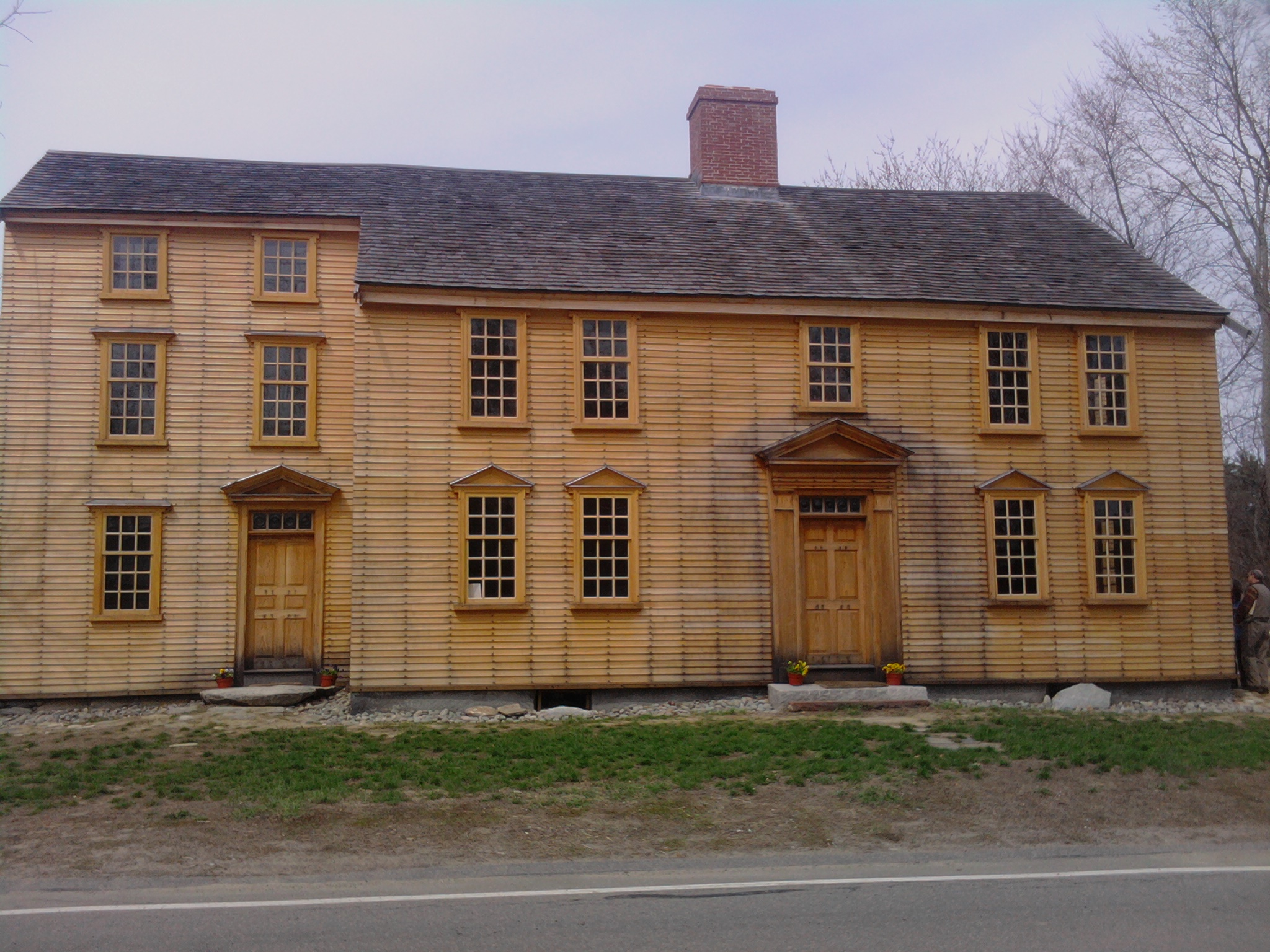 Colonel James Barrett House, Concord, Massachusetts.